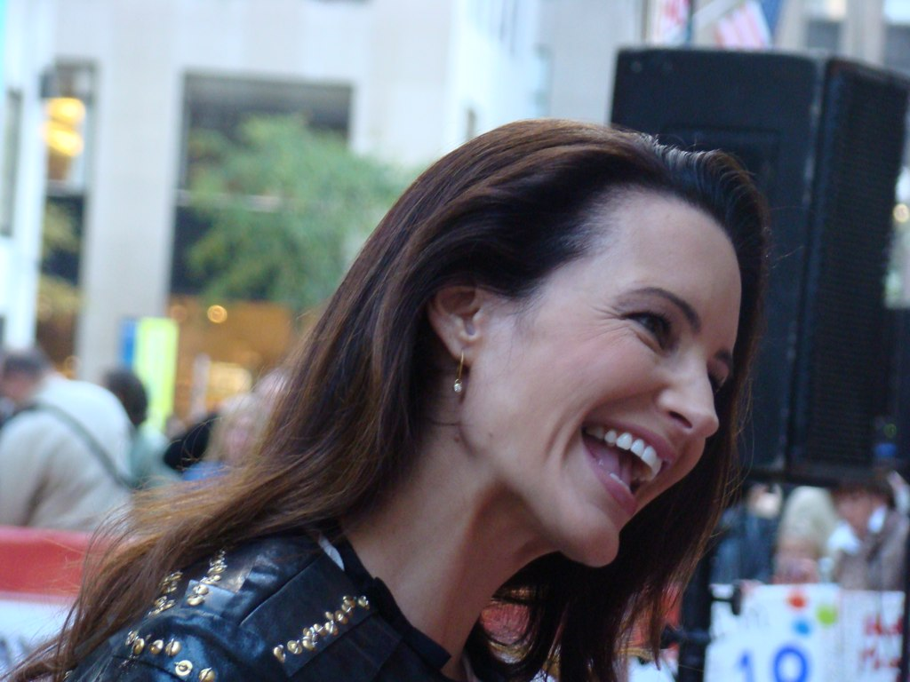 Kristin Davis in New York.